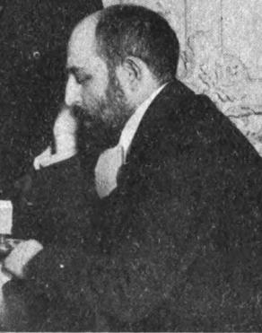 Photo of Ossip Bernstein